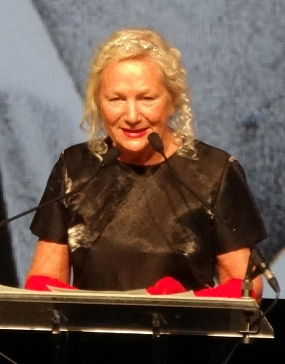 Agnès b. at Festival Deauville 2012